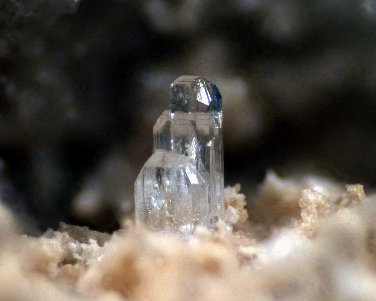 Mejillonesite Locality: Cerro Mejillones, Mejillones peninsula, Mejillones, Antofagasta Province, Antofagasta Region, Chile Original description: Nice coulourless group of crystals of Mejillonesite. dimension group mm. 0,70 photo Germano Fretti, collection Luigi Chiappino